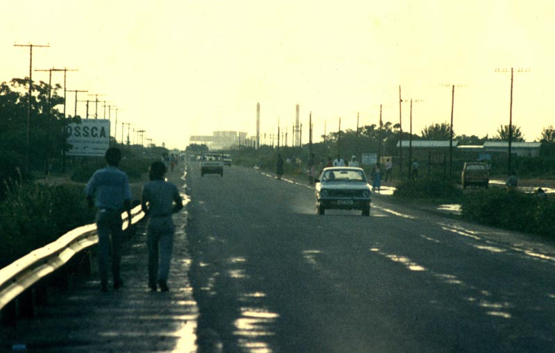 en.wiki: "Taken and donated by User:John". The main road through Palapye, Botswana, looking east towards Morupule Power Station on the Serowe road.